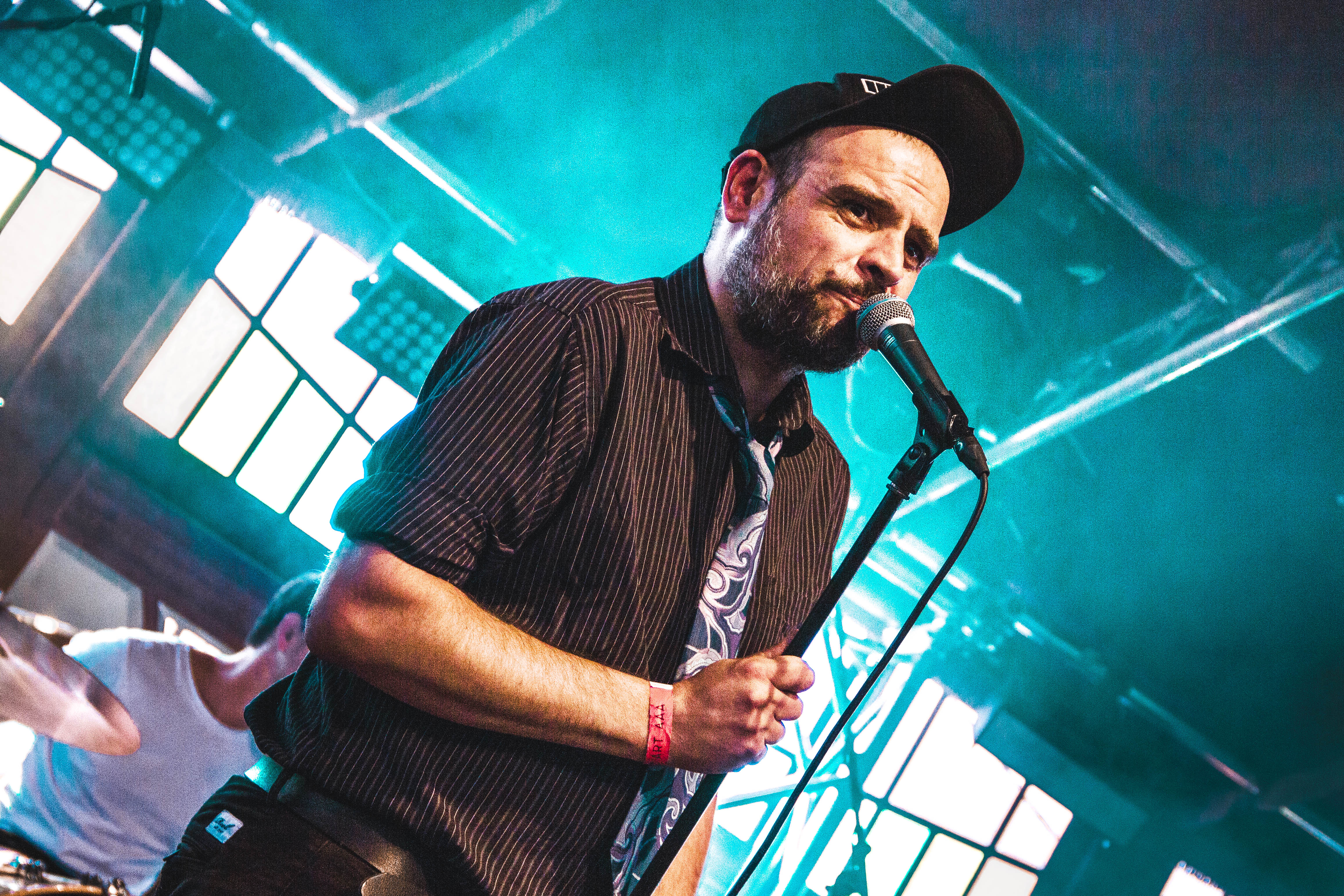 Love A at Haldern Pop Festival 2018 in Haldern